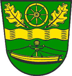 Coat of Arms of Schweringen